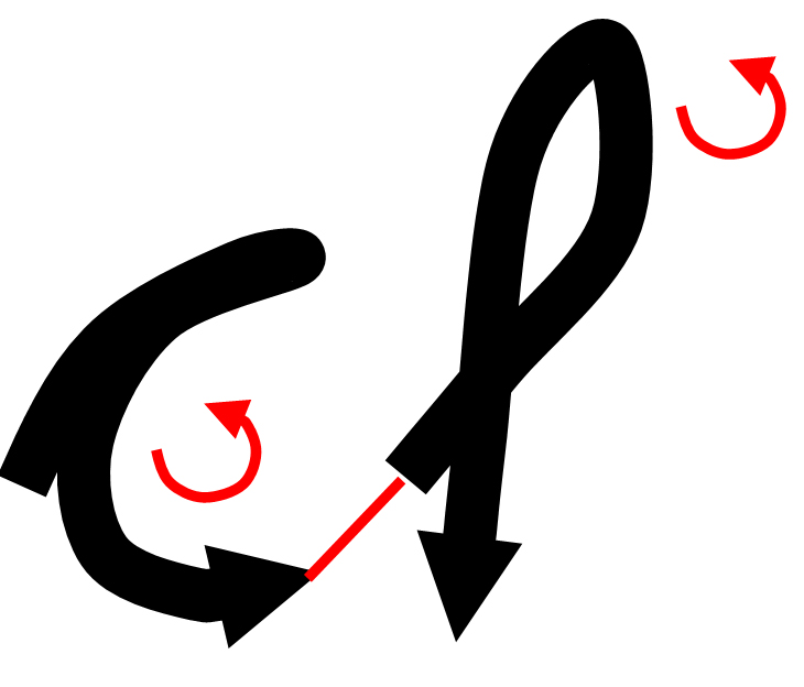 Interrupt without reversal